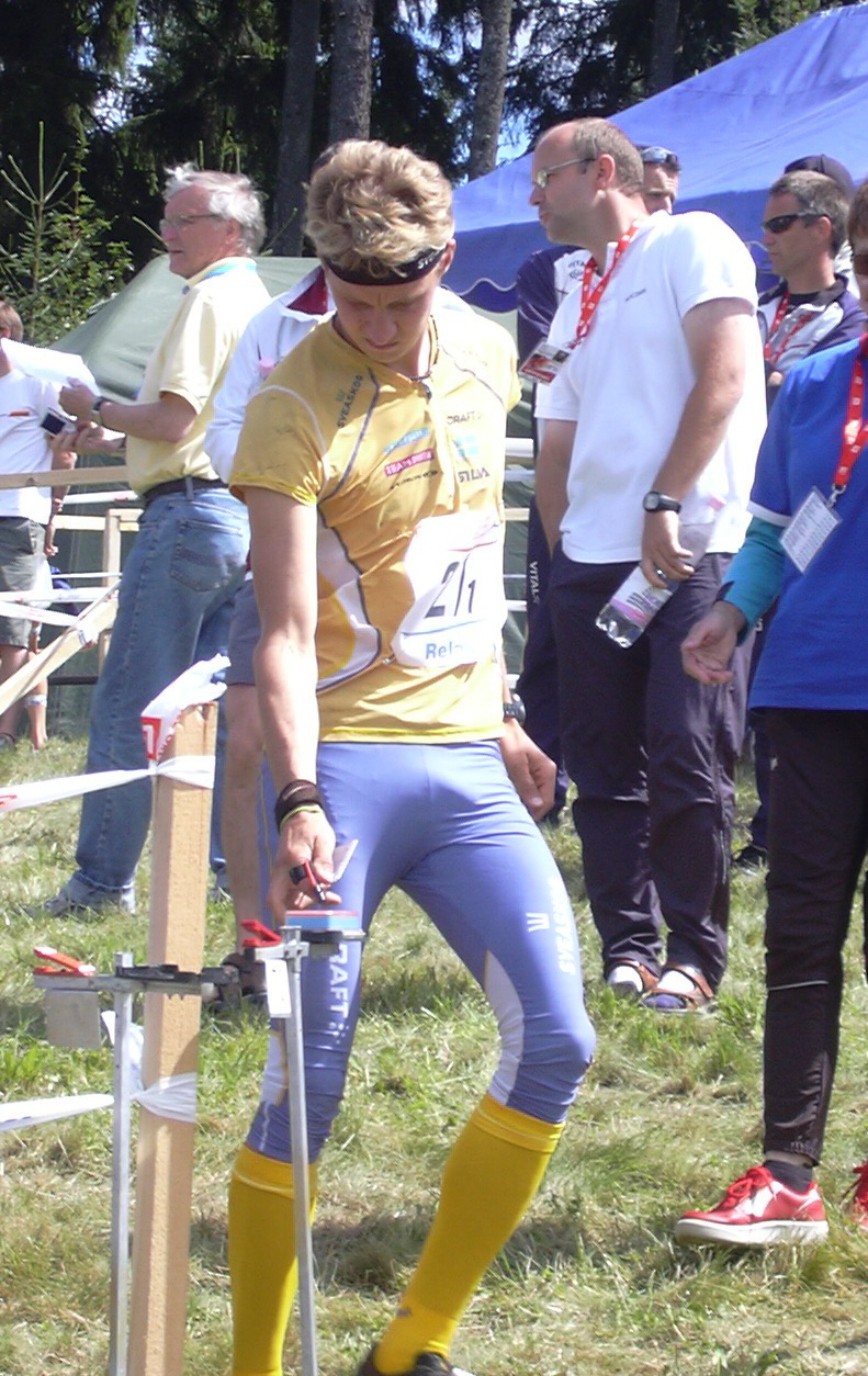 World Orienteering Championships 2008 in Olomouc, Czech Republic. On photo Erik_Öhlund.